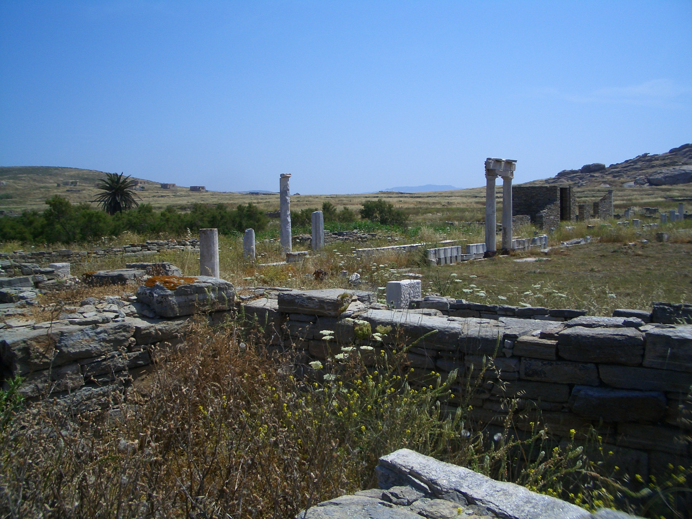 View of the Delos island in Greece